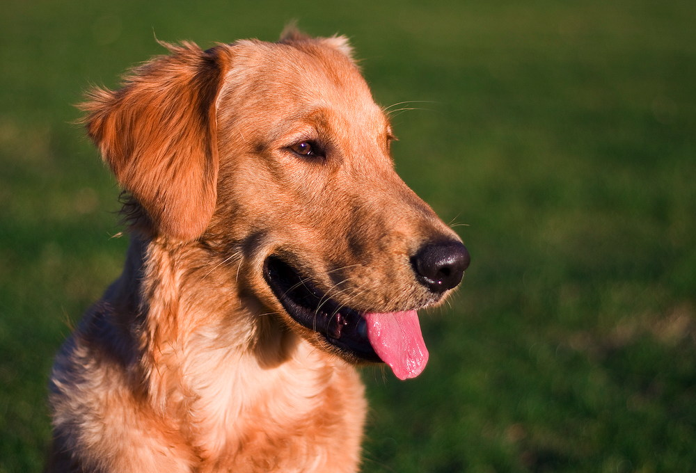 Golden Retriever Puppy